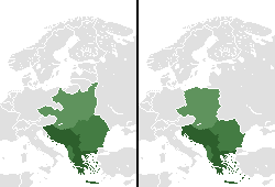 Map of the British backed "Balkan Union", with pre-WWII borders on the left, and post-WWII borders on the right. Initial "Greek-Yugoslav confederation" (step 1) Expansion of confederation into "Balkan Union" (step 2) Final stage of expansion, a union of the "Balkan Union" and an expanded "Polish–Czechoslovak confederation" that includes Hungary. (step 3)